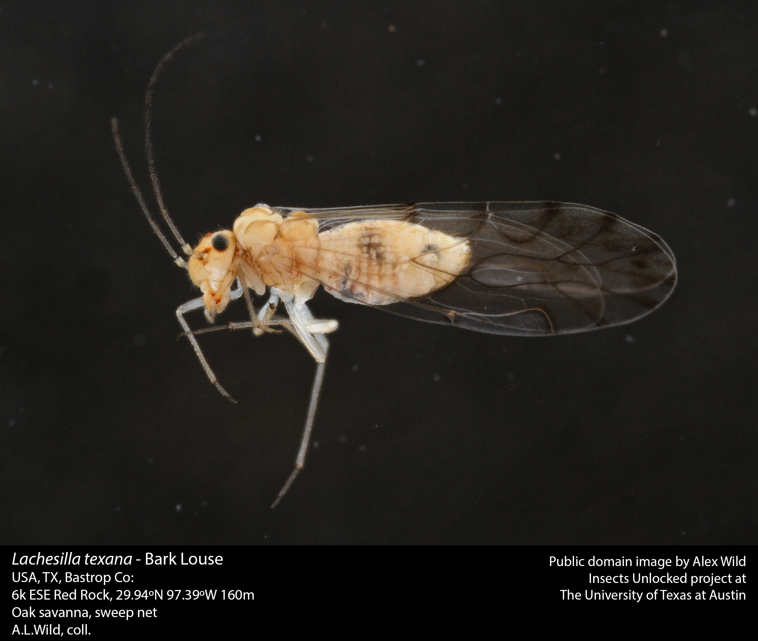 Lachesilla texana - Bark Louse USA, TX, Bastrop Co: 6k ESE Red Rock 29.94ºN 97.39ºW 160m Oak savanna, sweep net A.L.Wild, coll.